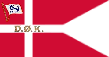 The special version of the Danish flag, only flown by EAC ships by Royal decree.